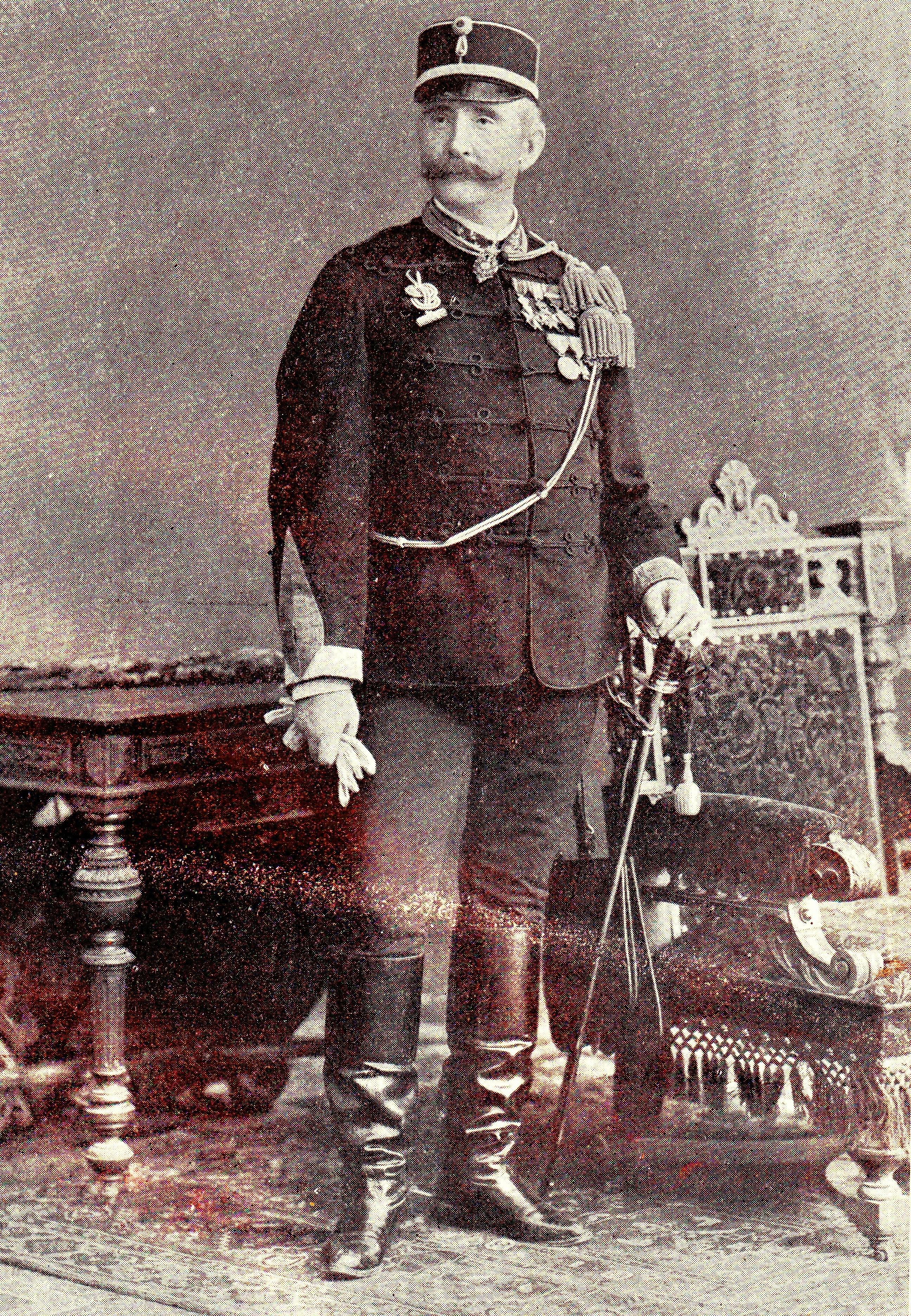 Jan Jacob Karel de Moulin